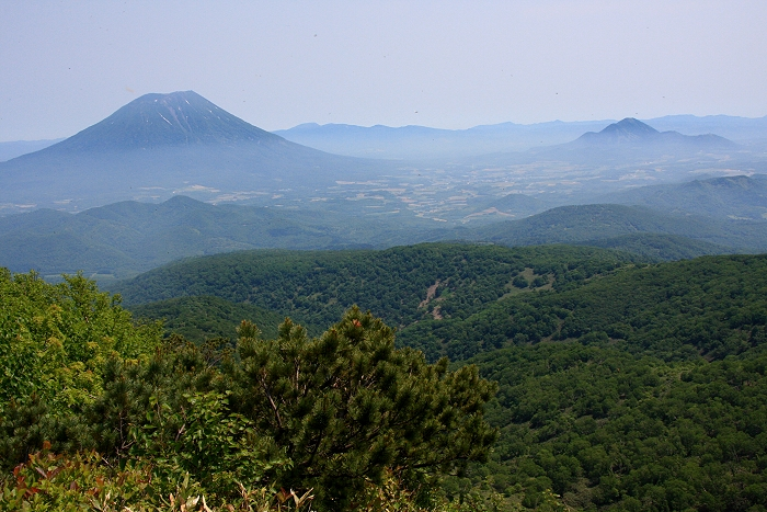 Looking the northeast from Mount Konbu in Hokakido Japan. Mount Yotei on the left. Mount Shiribetsu on the rignt.